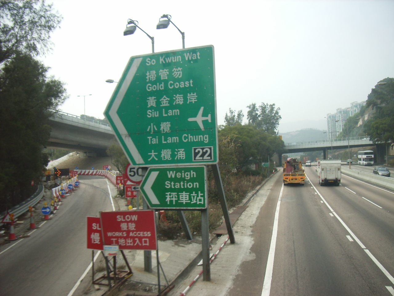 Tuen Mun Road & 青山公路(大欖段)橋, 屯門公路, 香港, Hong Kong. (Photo created by User:TUmuMATo)。